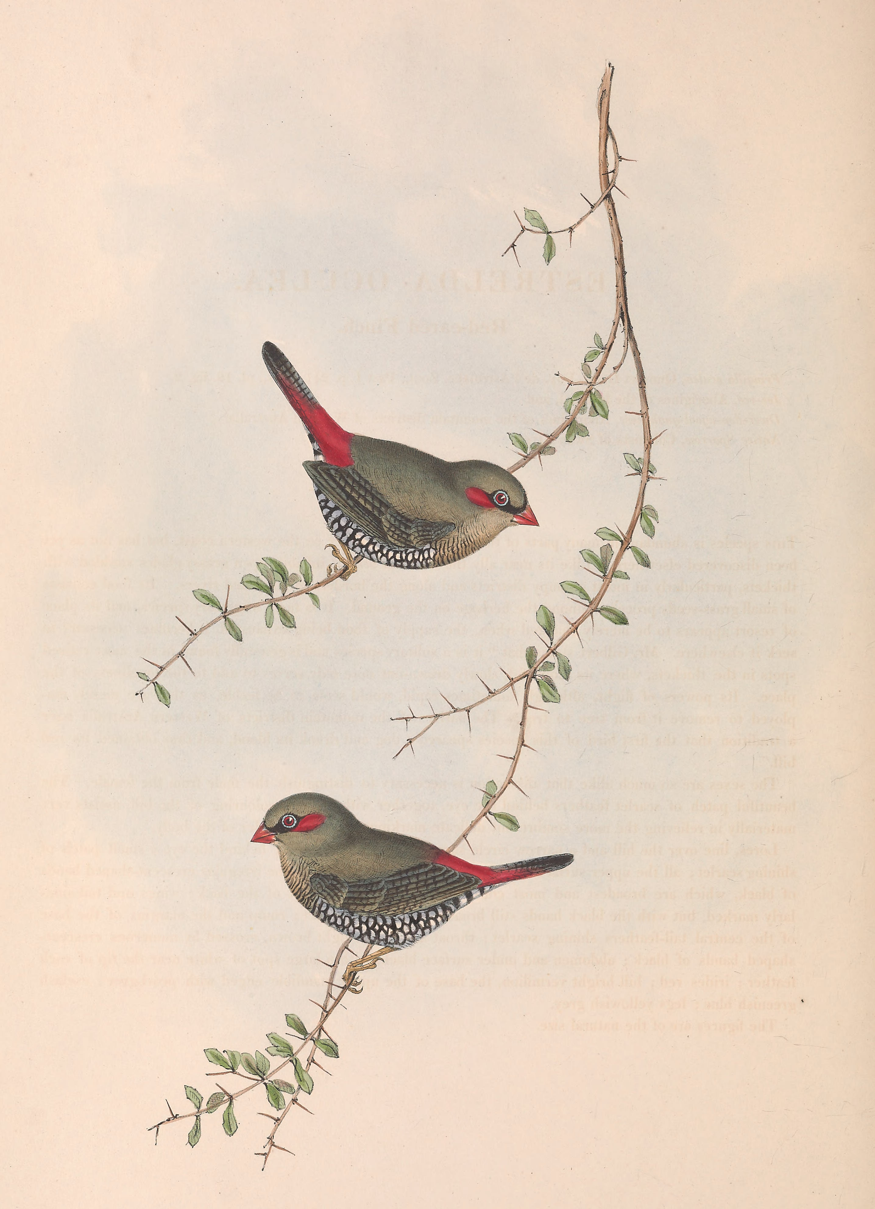 Illustration to entry on Estrelda oculea [Stagonopleura oculata] in Birds of Australia Gould vol 3 plate 79